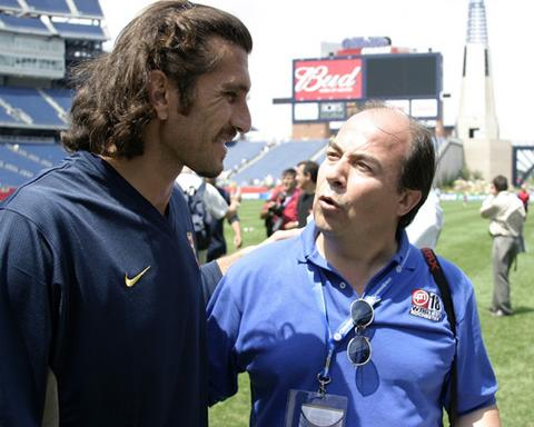 Rustu Recber (left) with Ahmet Turgut in Boston,USA